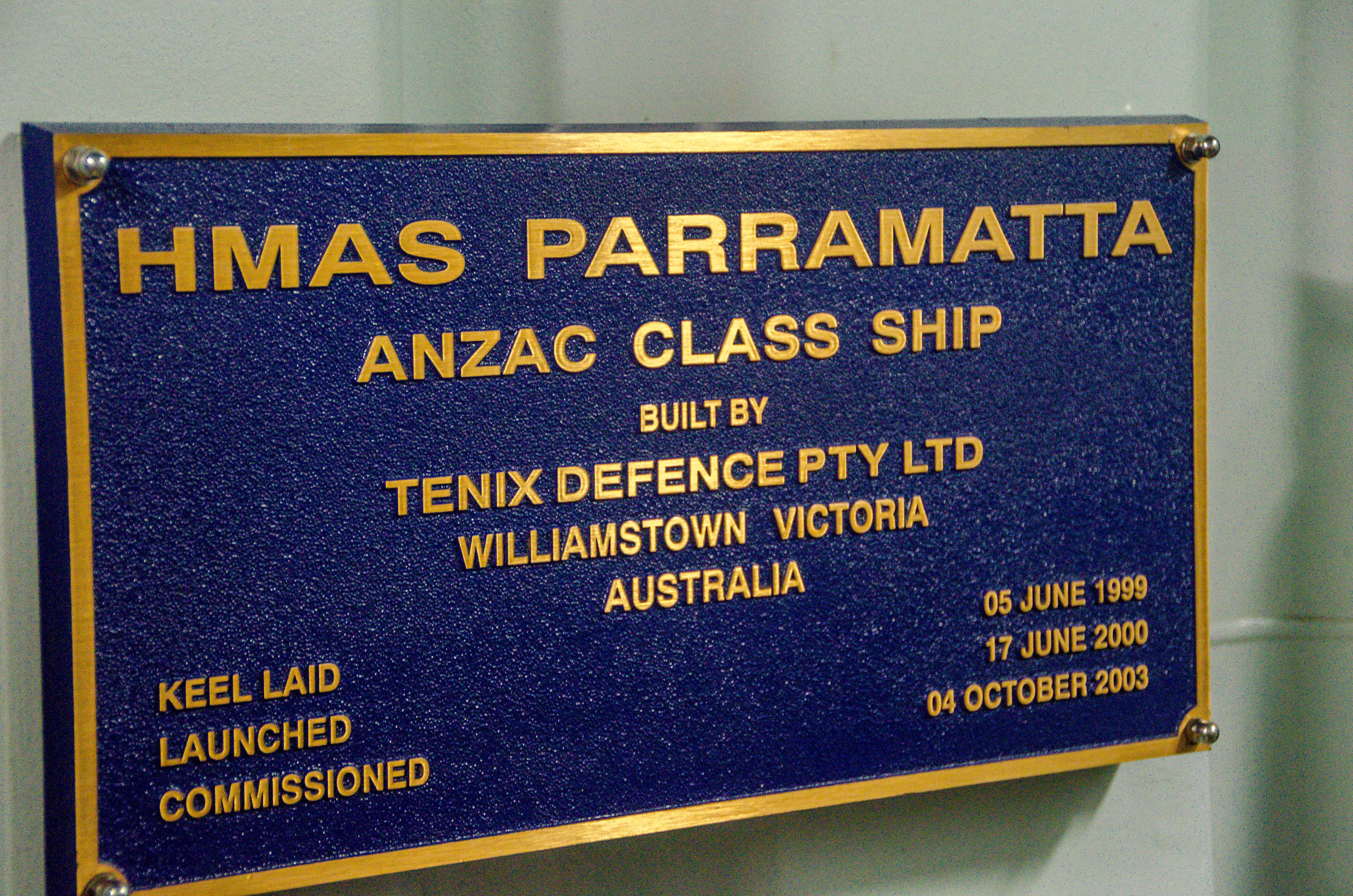 HMAS Parramatta (FFH 154) Makers Plate